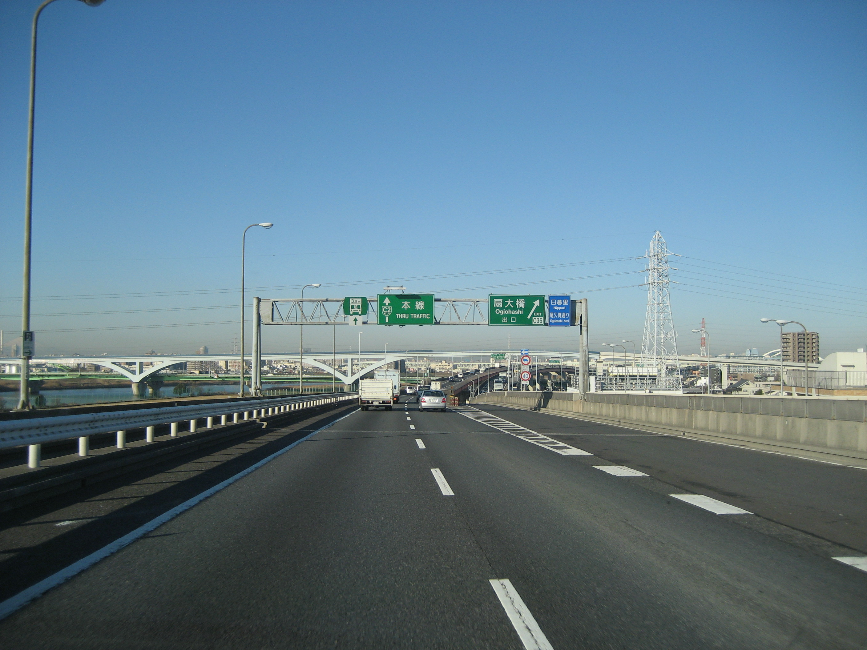 Ogiohashi Interchange on the Metropolitan Expressway Route C2